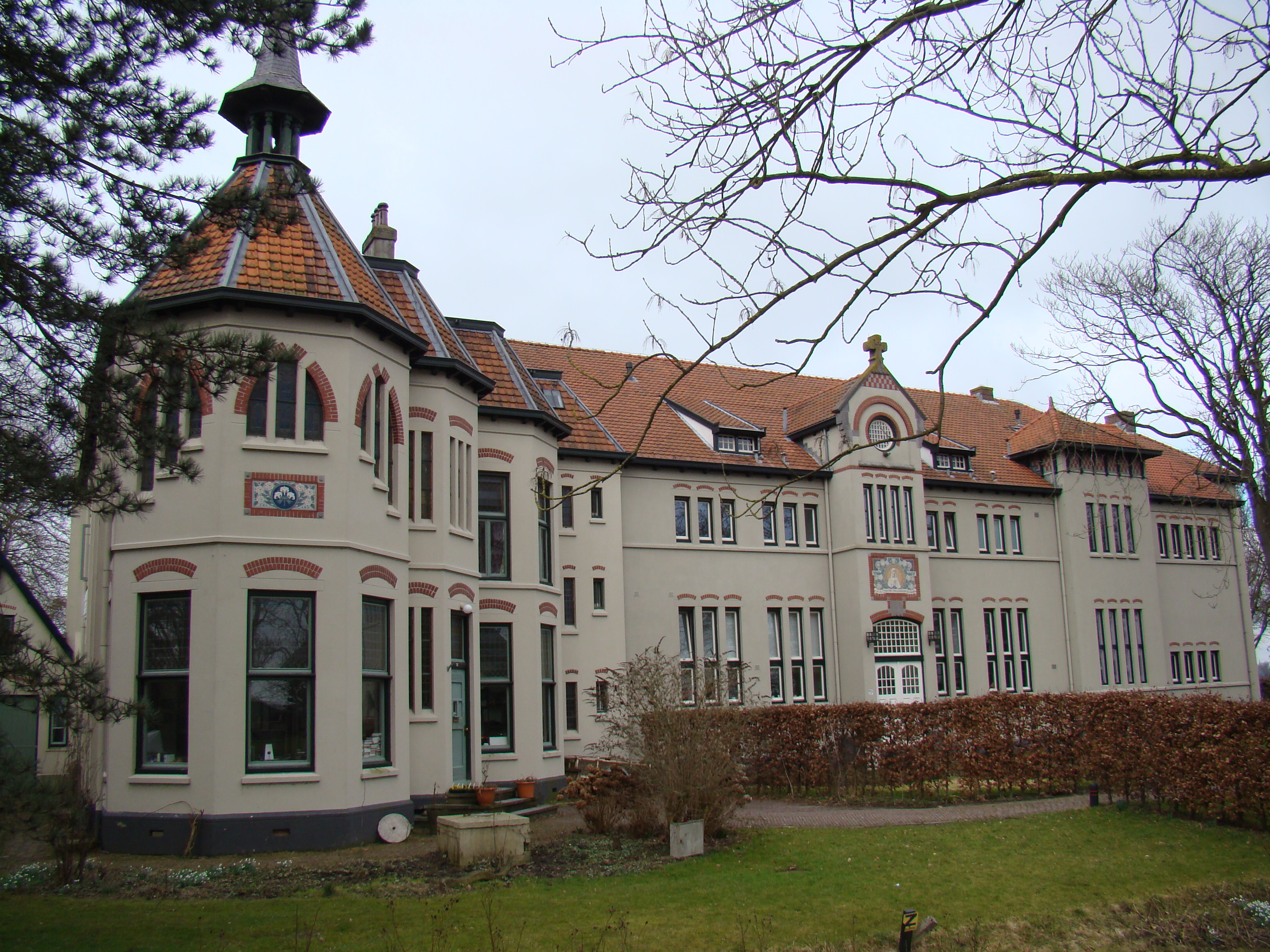 West Beemster, Lourdesschool (Netherlands)